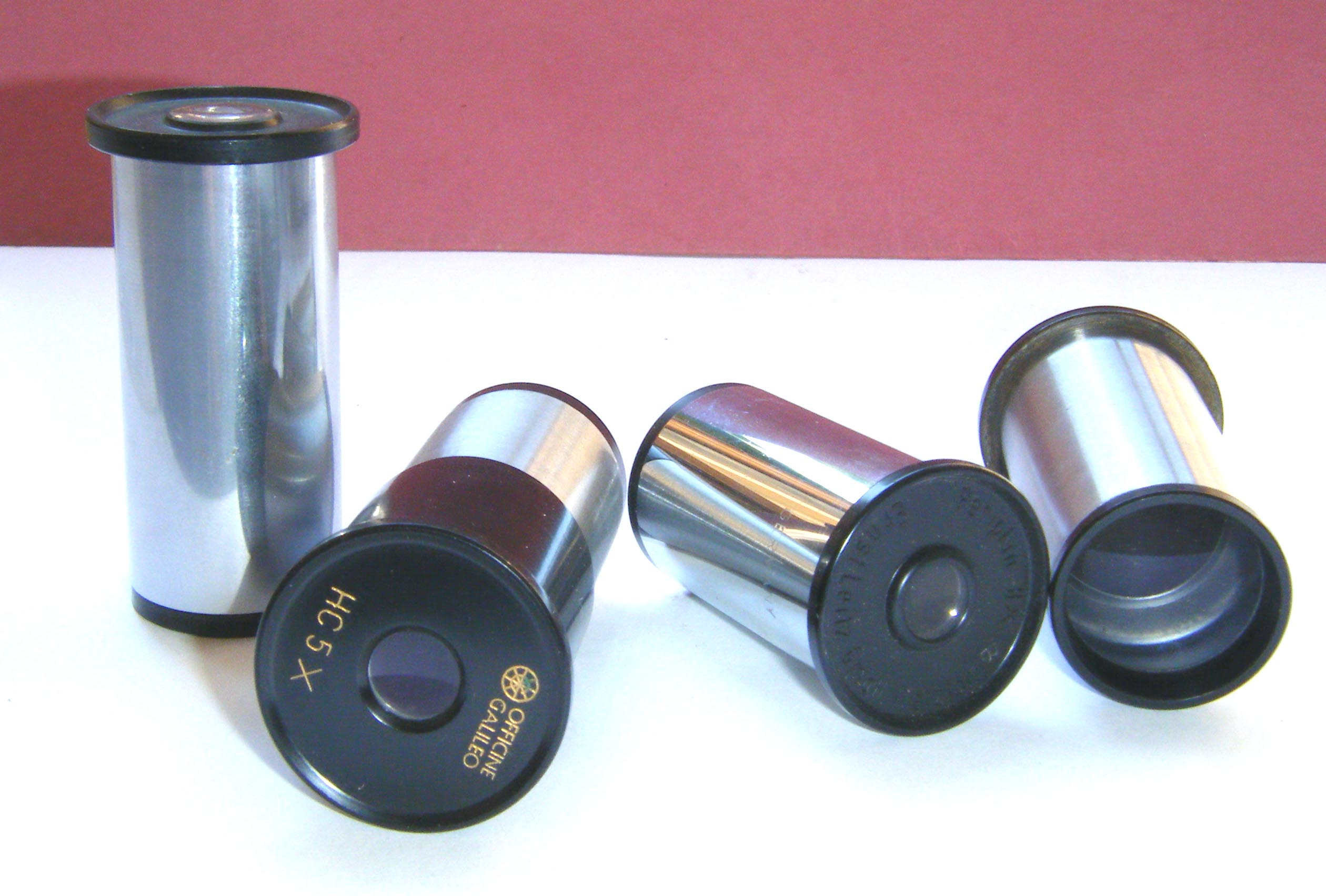 Lenses for optical microscope